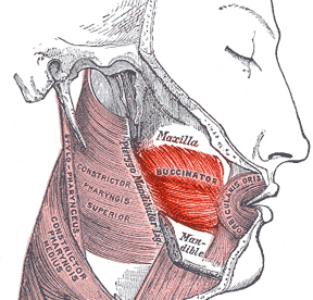 A picture from Gray's anatomy that has been adjusted by User:Havaska to highlight the buccinator muscle.